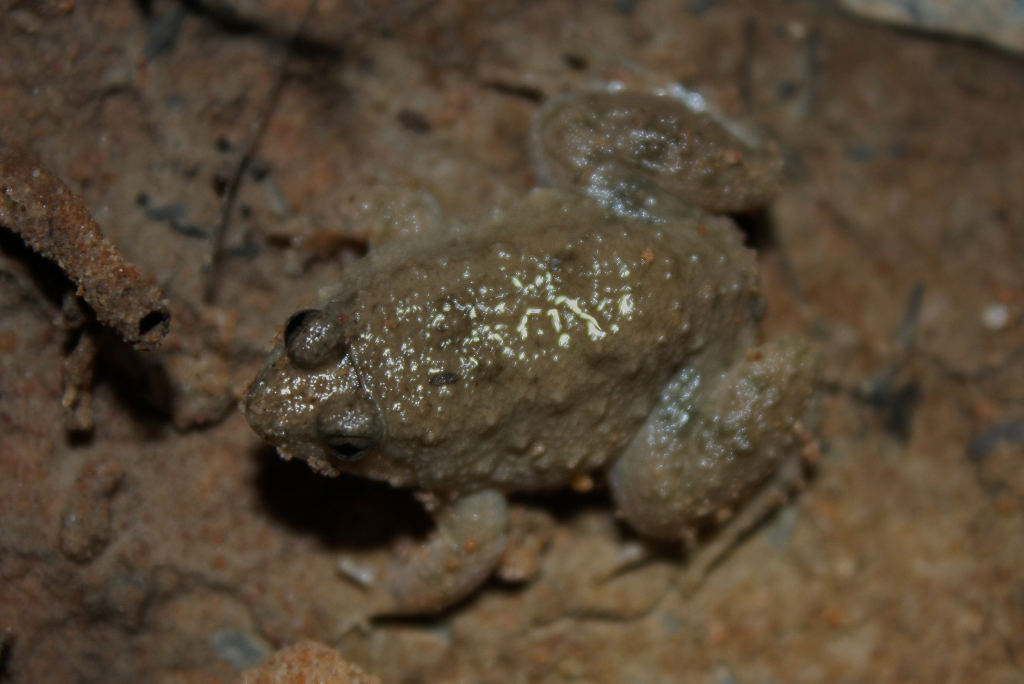 Found next to rain pools near the Angkor temple complex.